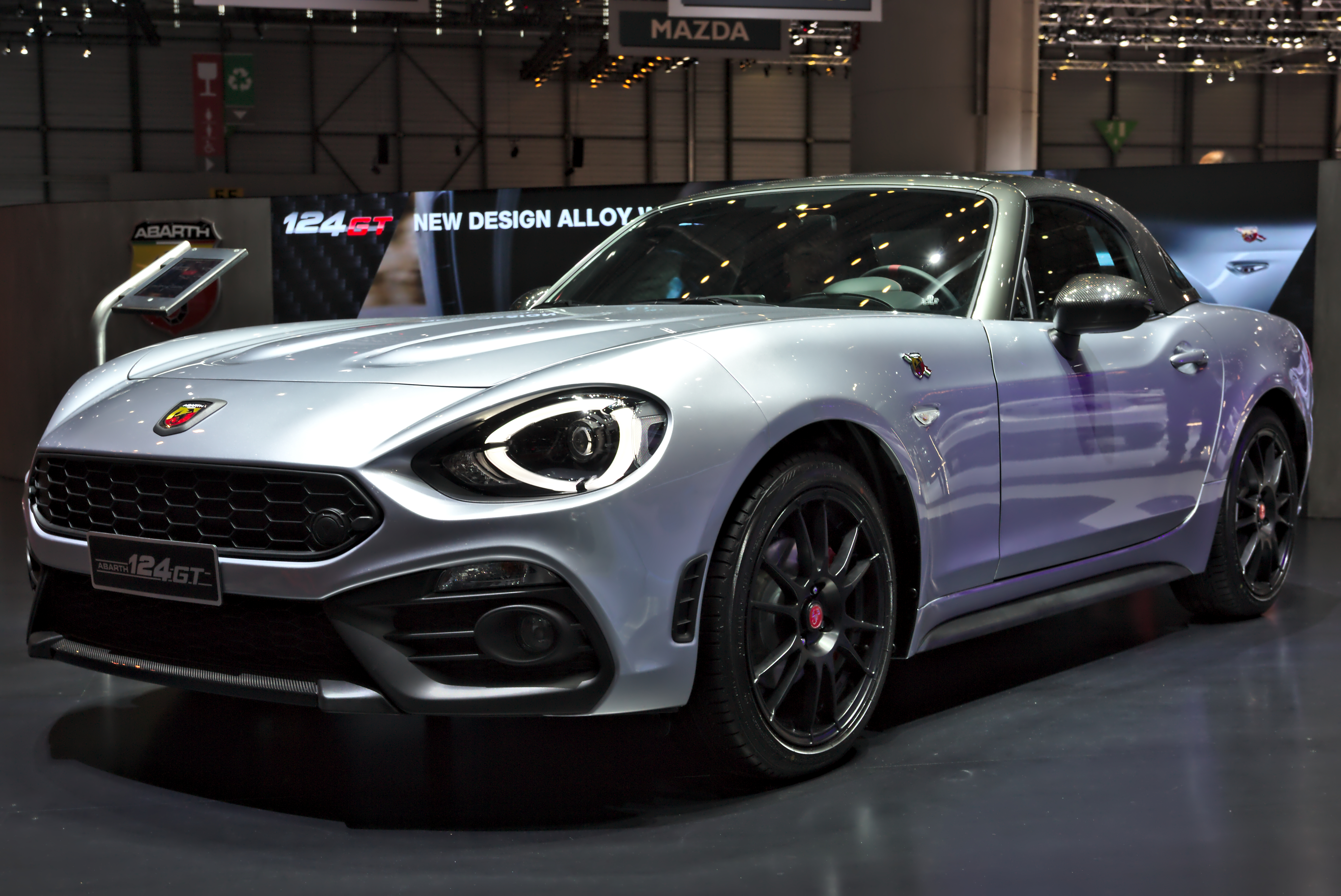 Abarth 124 Spider GT at Geneva Motorshow 2018